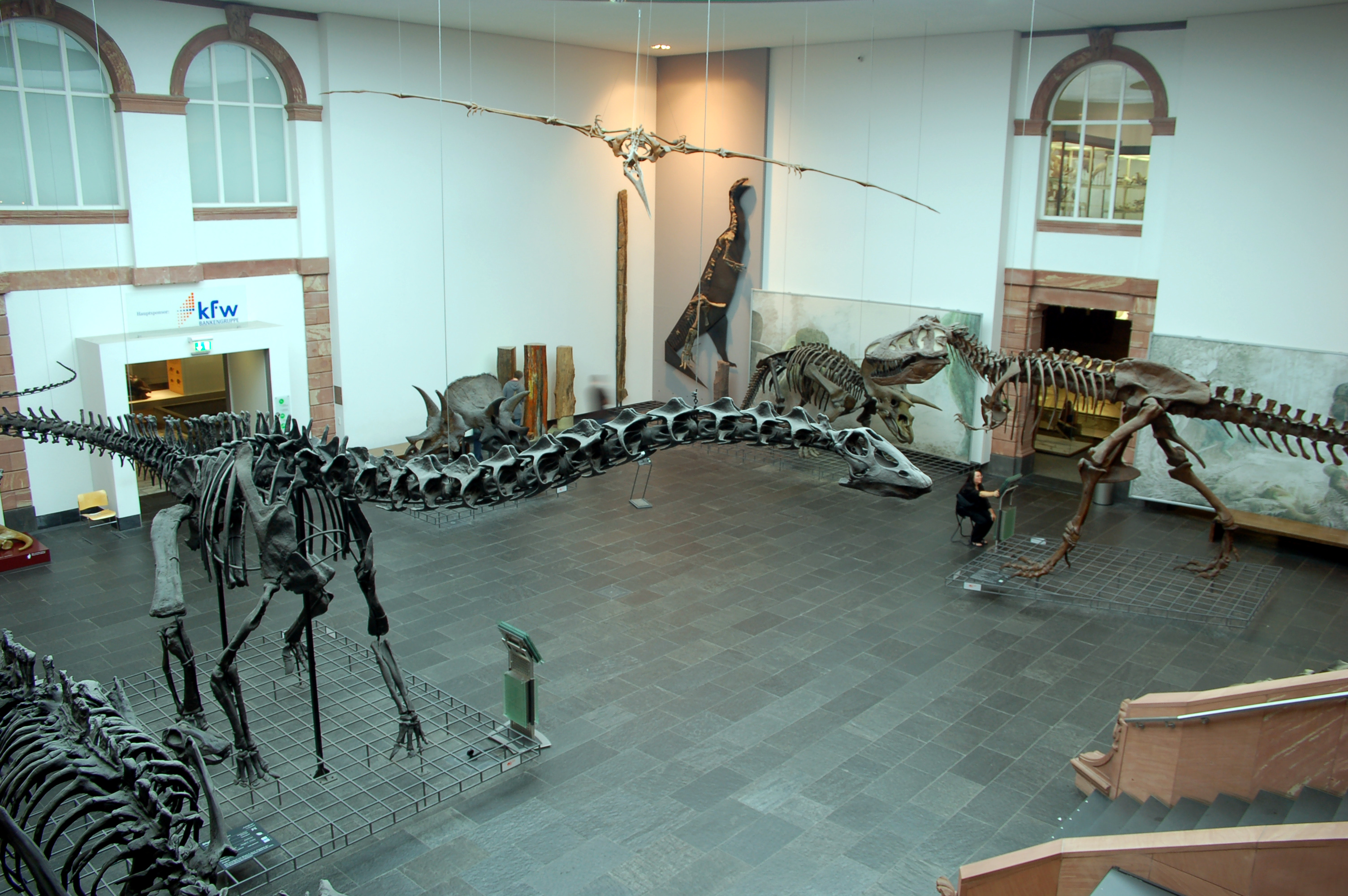 Areaway with dinosaur skeletons in the Senckenberg Museum in Frankfurt am Main. Diplodocus, Tyrannosaurus, Triceratops, etc.